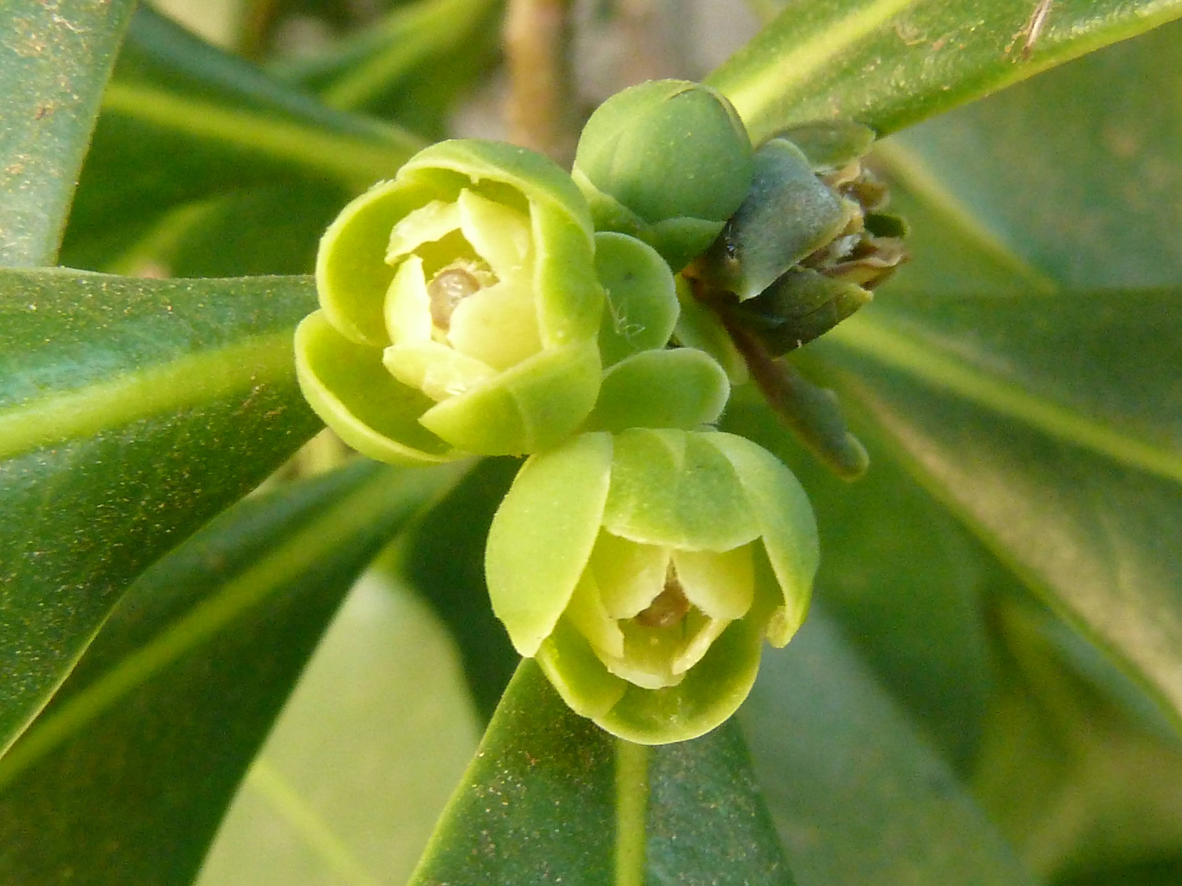 Flowers of a Pepper-bark tree in the Manie van der Schijff Botanical Garden at the University of Pretoria